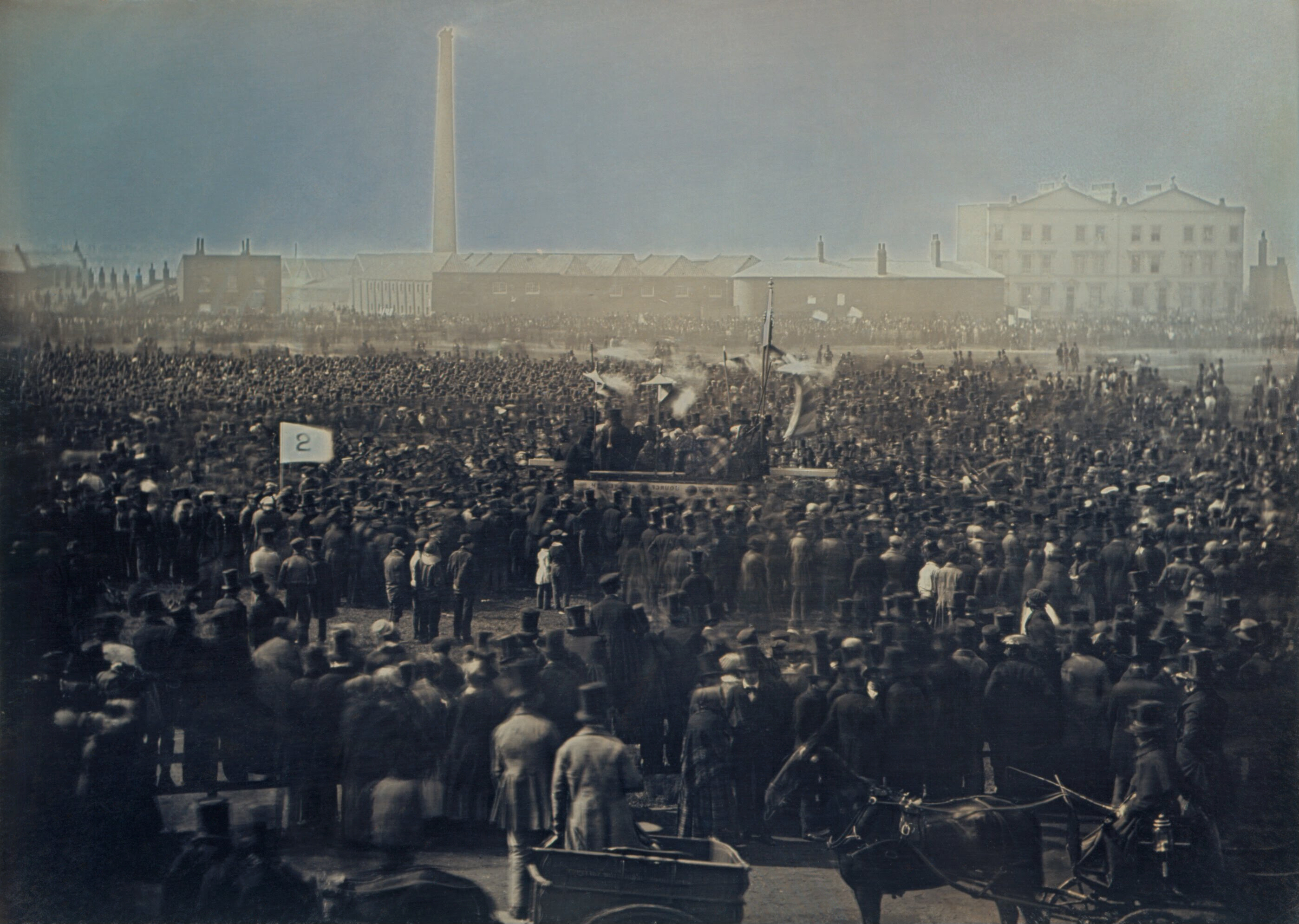 Chartist meeting on 10 April 1848 at Kennington Common, by William Edward Kilburn, restored version. Restored by Bammesk